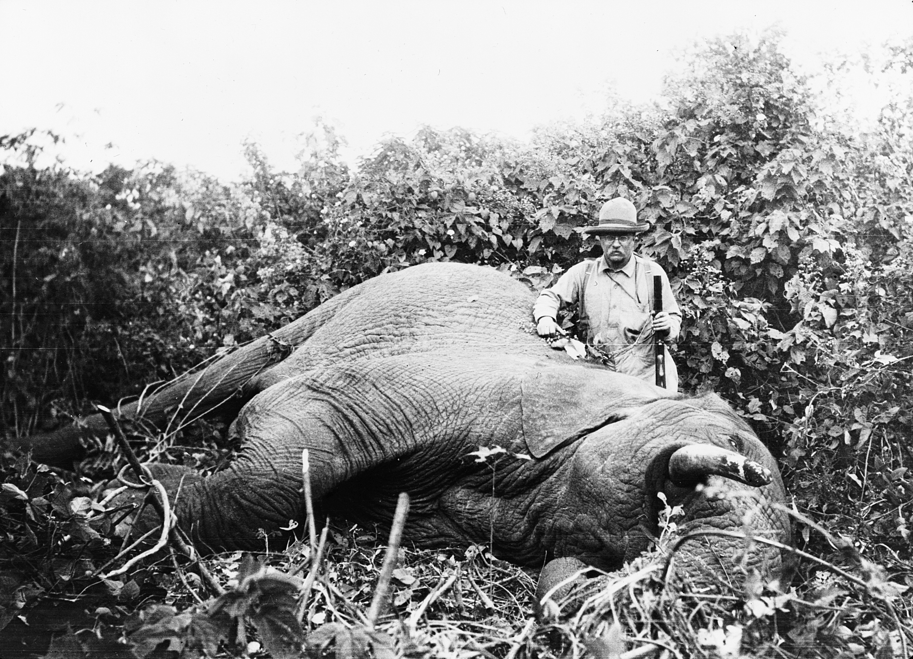 [Theodore Roosevelt, three-quarter length portrait, standing next to dead elephant, holding gun, probably in Africa] / Edward Van Altena, N.Y.C.